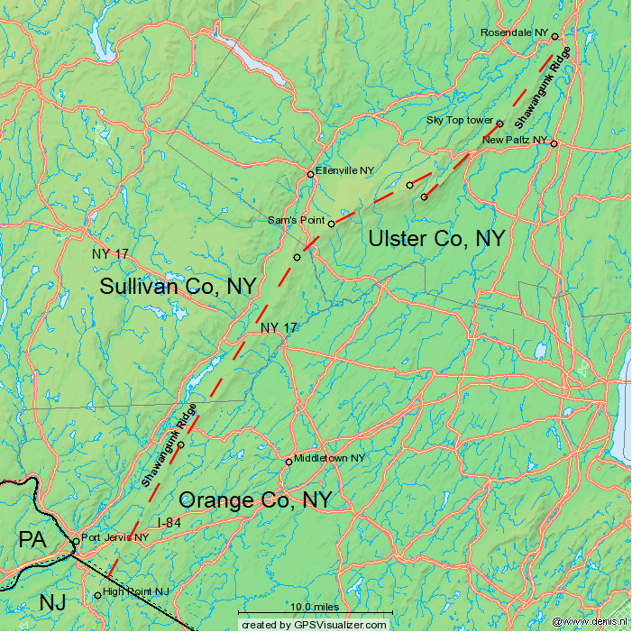 The ridge is marked by dashed red lines on a relief map. Also shown are towns, landmarks, state boundaries, and counties.